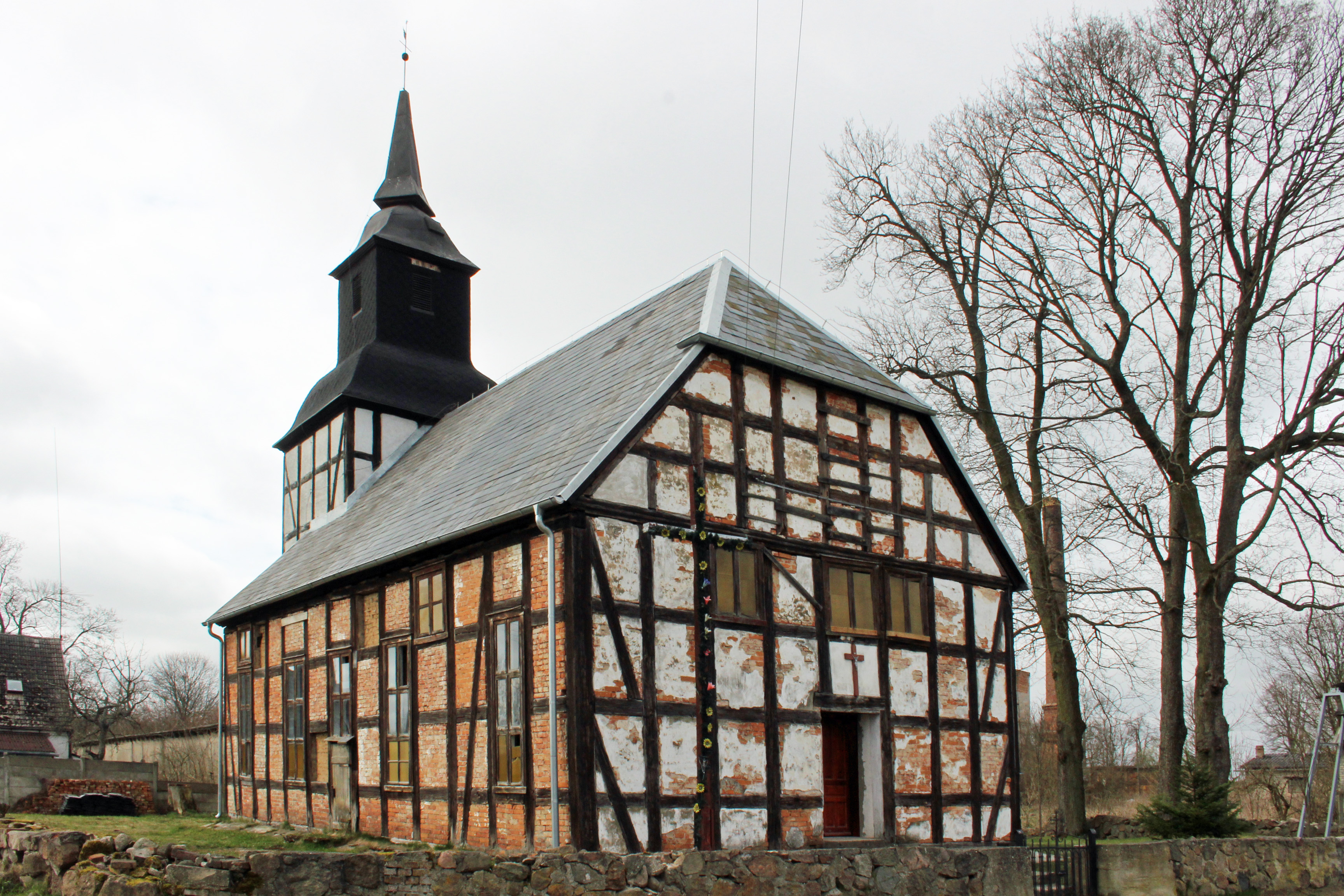 Saint Stanislaus church in the village Węgorzewo.